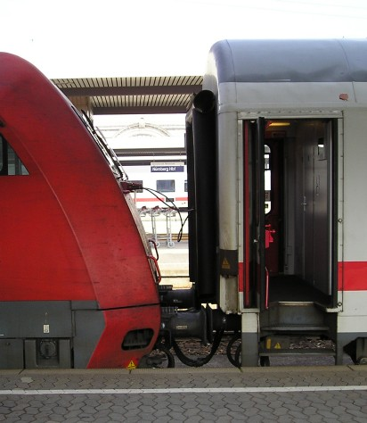 DBAG Class 101 locomotive coupled to an IC train